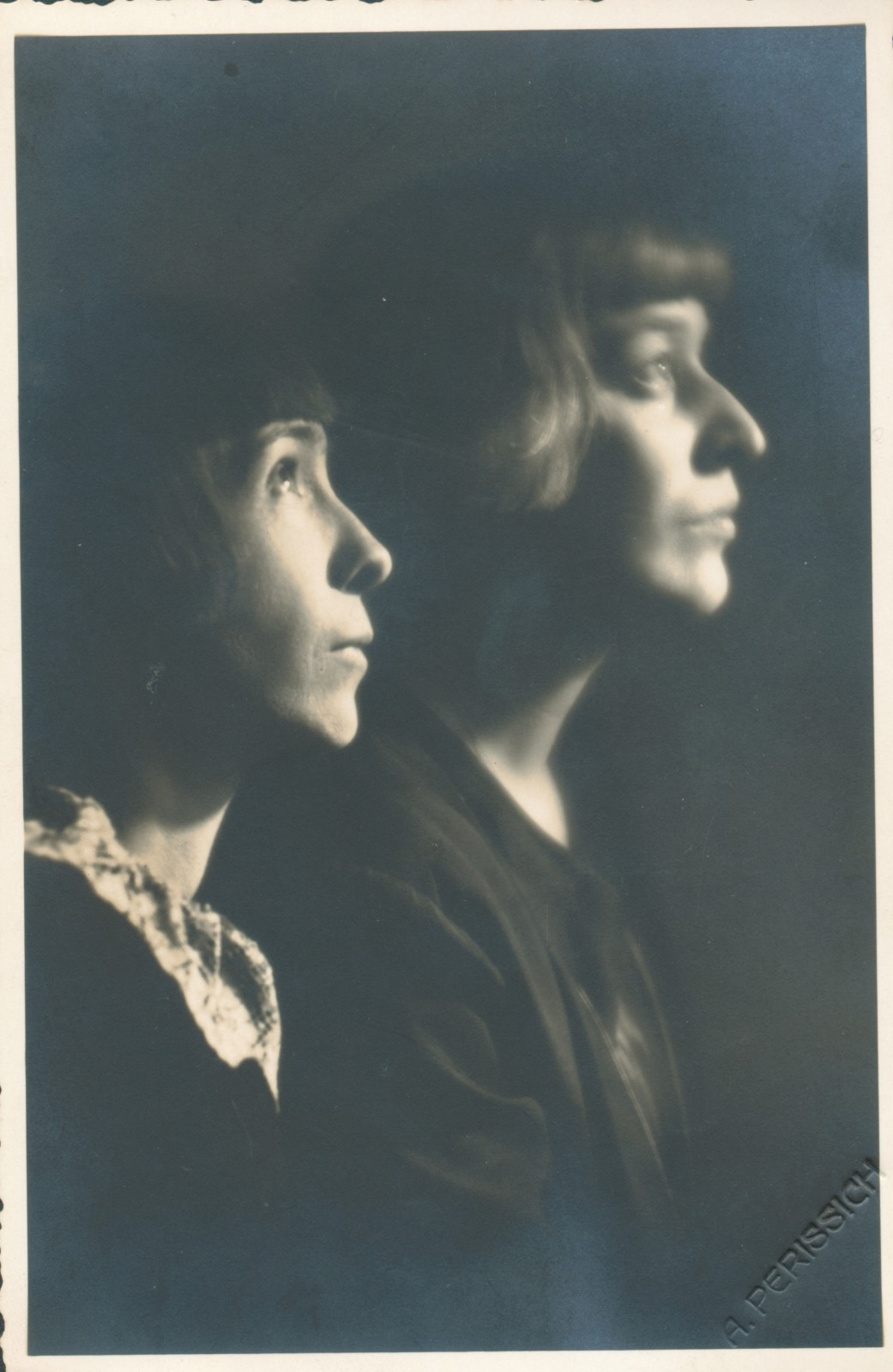 Thea Schreiber Gamelin z Almo Karlin.